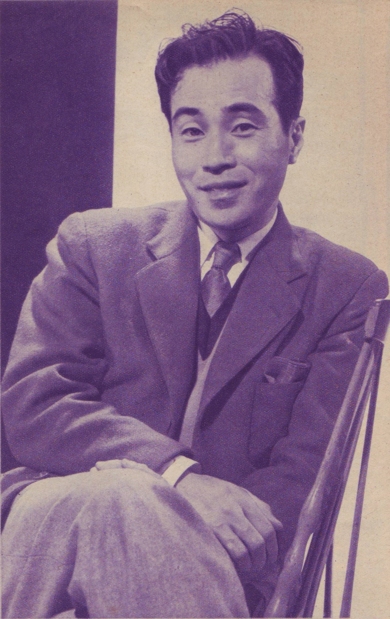 Hisaya Morishige. taken in 1954.